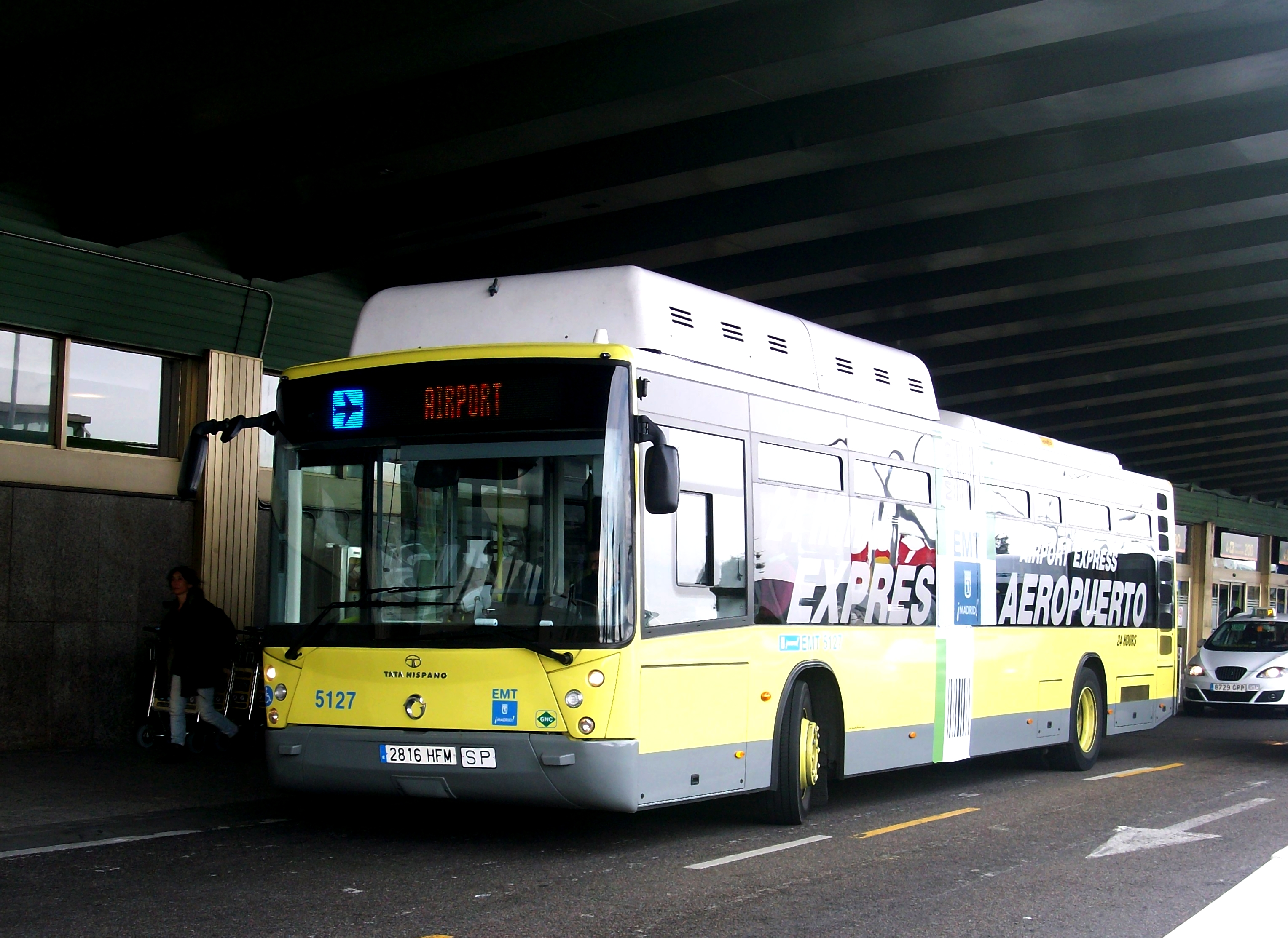 Shuttle between Madrid airport and city center